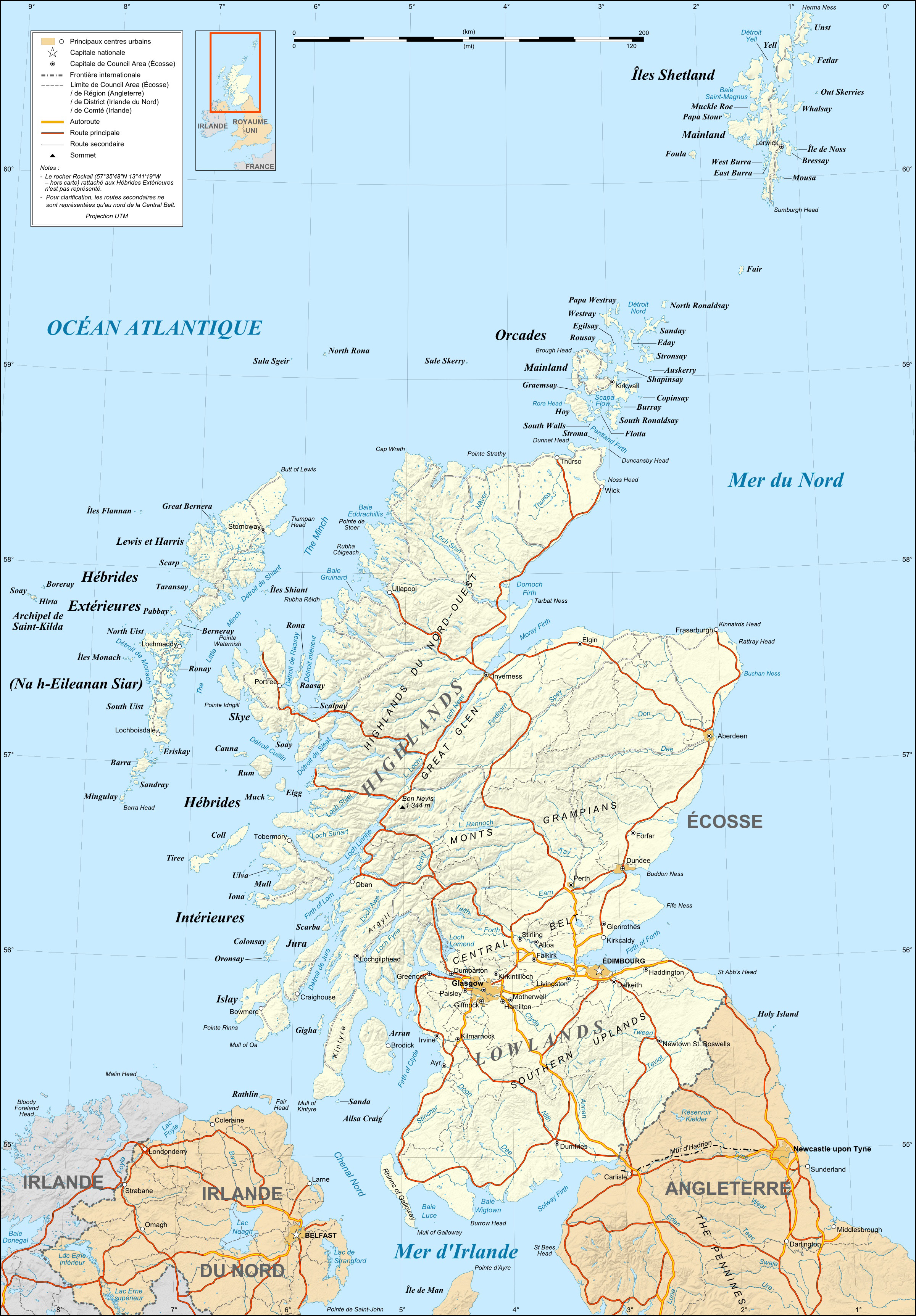 Map in French of ScotlandThis is a lighter raster JPG format version of Image:Scotland_map-fr.svg which should be used in the article pages, the vector graphics version purpose being for modification and / or translation.